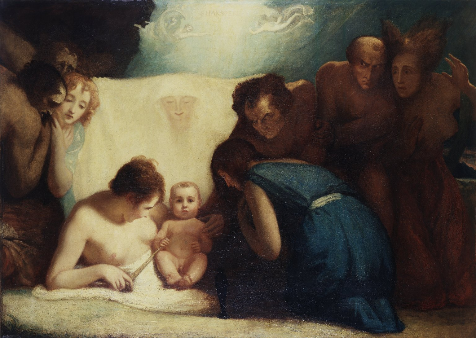 Shakespeare accompanied by Nature and the Passions